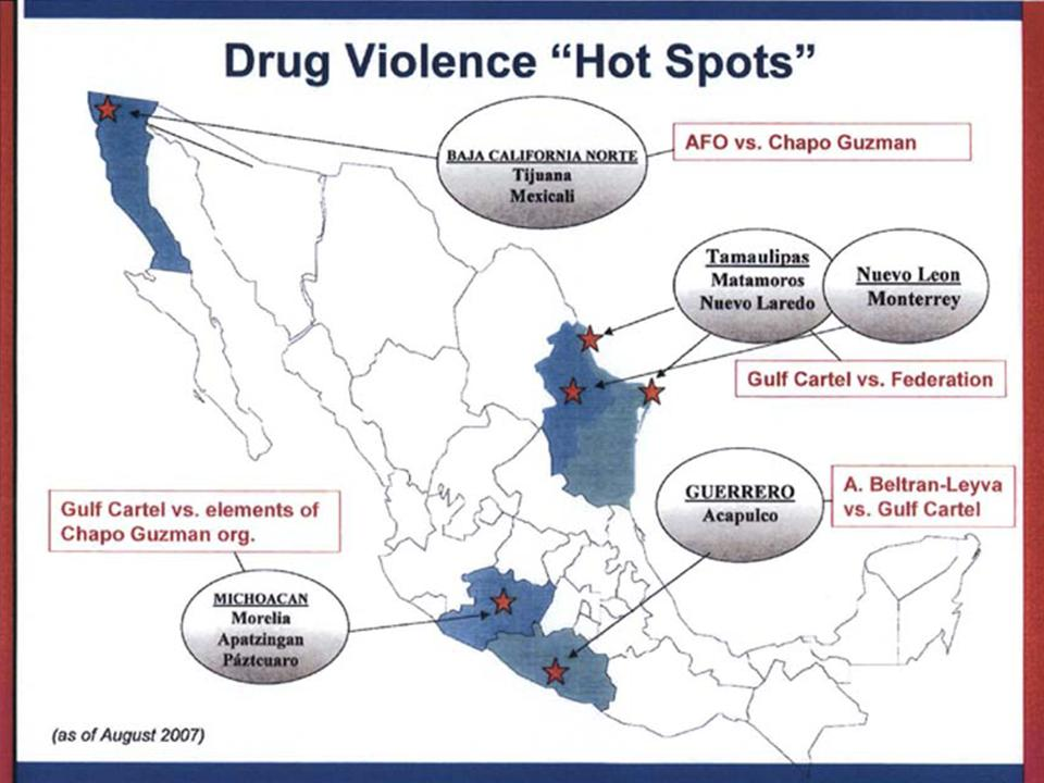 Report on United States Counter-Narcotics Assistance to Mexico: The Merida Initiative